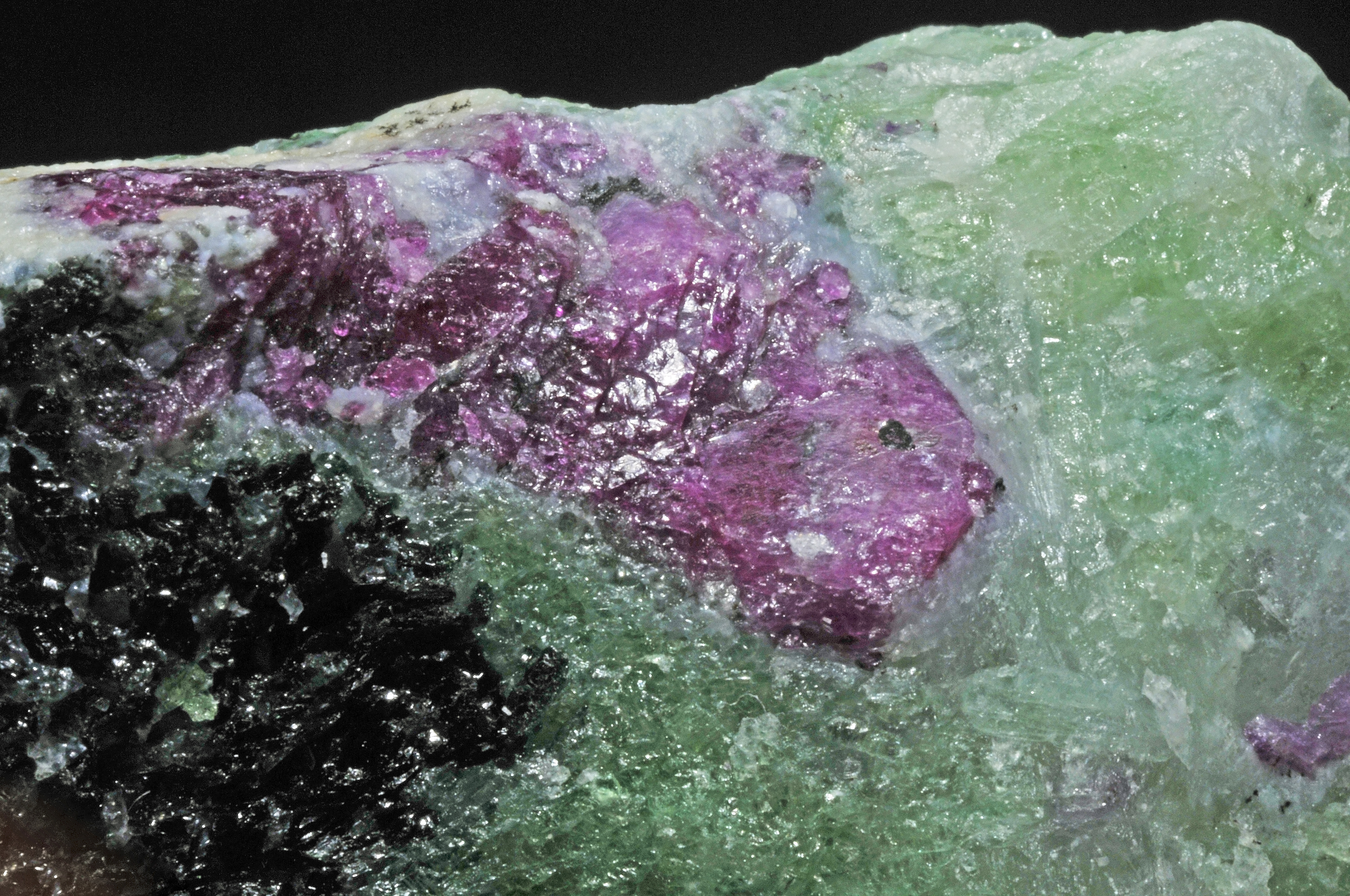 crystals of corundum var. ruby, crystals of pargasite, crystals of zoisite var. anyolite : Mundarara Mine, Longido, Mt Kilimanjaro, Kilimanjaro Region, Tanzania